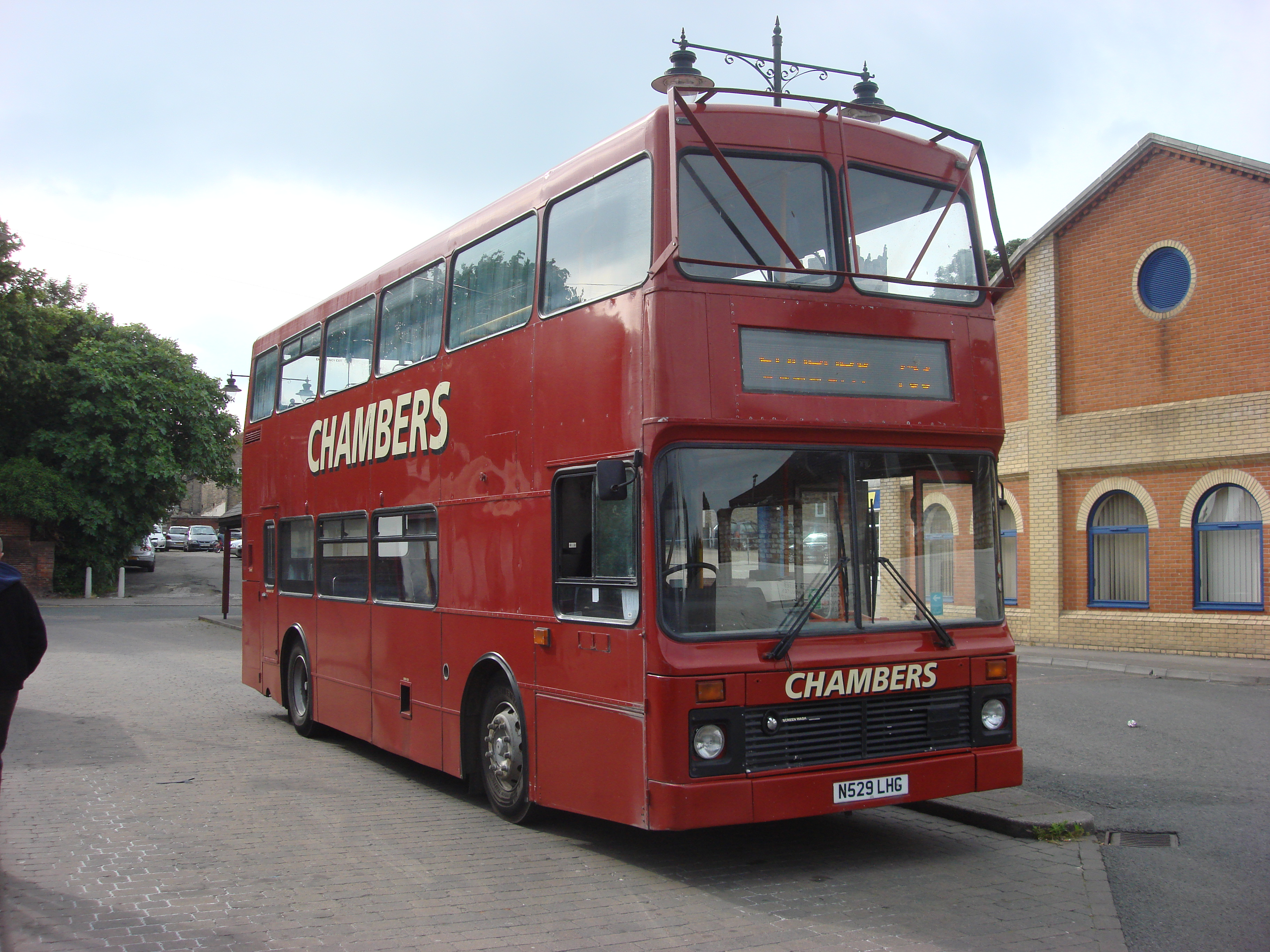 Chambers N529 LHG, a Volvo Olympian/Northern Counties Palatine, at Sudbury bus station.